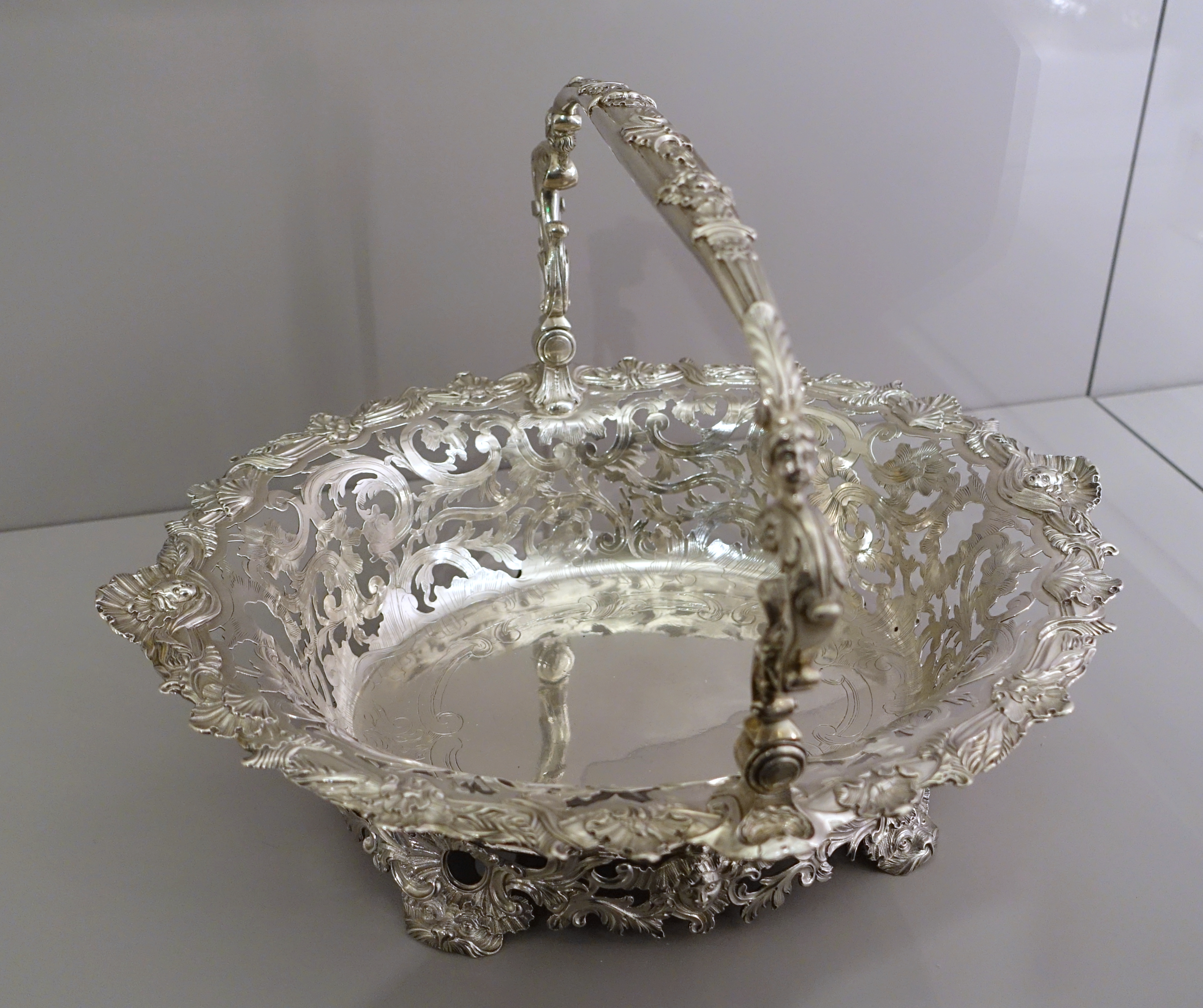 Exhibit in the Fogg Art Museum, Harvard University, Cambridge, Massachusetts, USA. This artwork is in the public domain because the artist died more than 70 years ago.